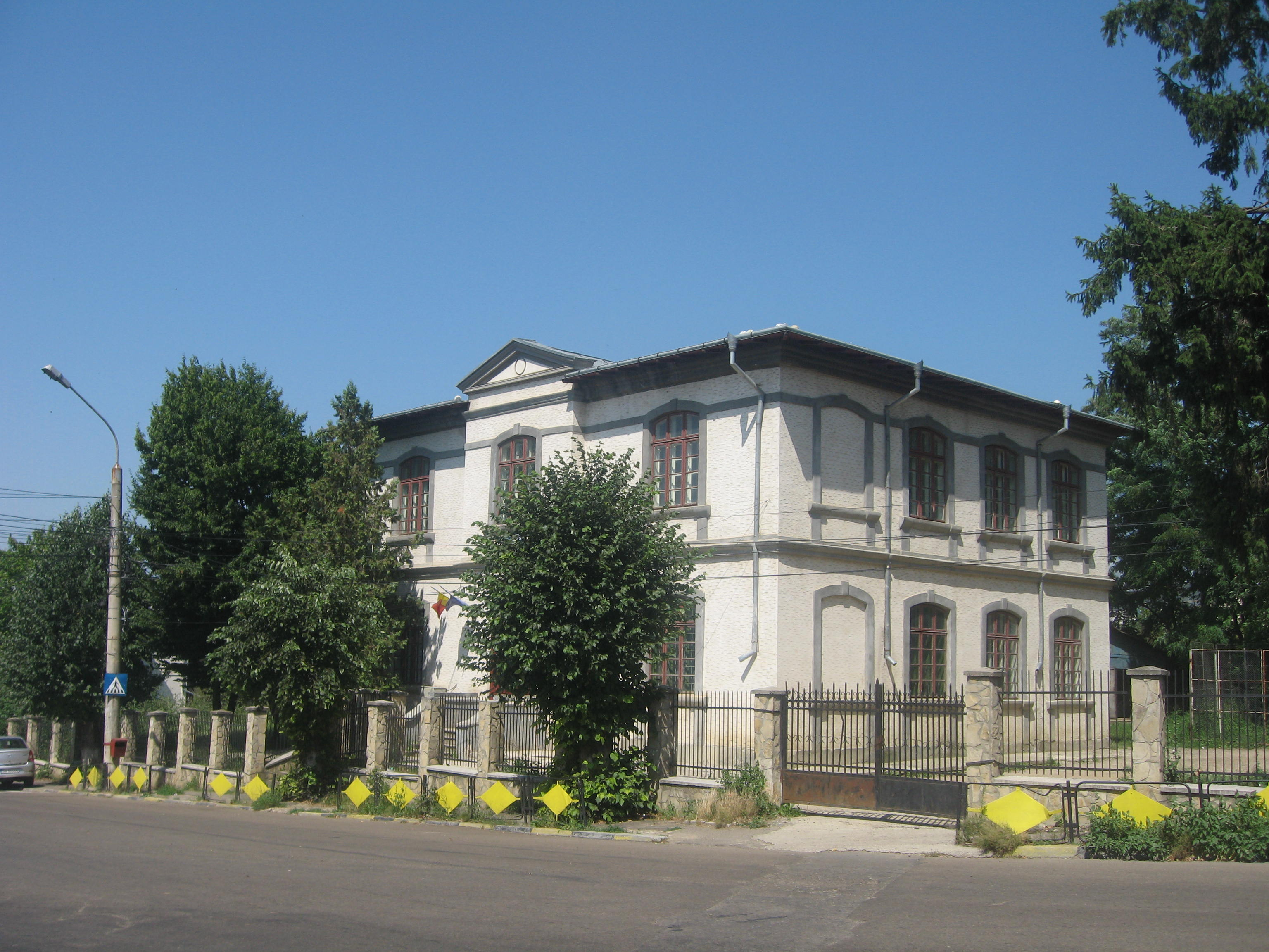 Jean Bart Secondary School in Burdujeni, Suceava.